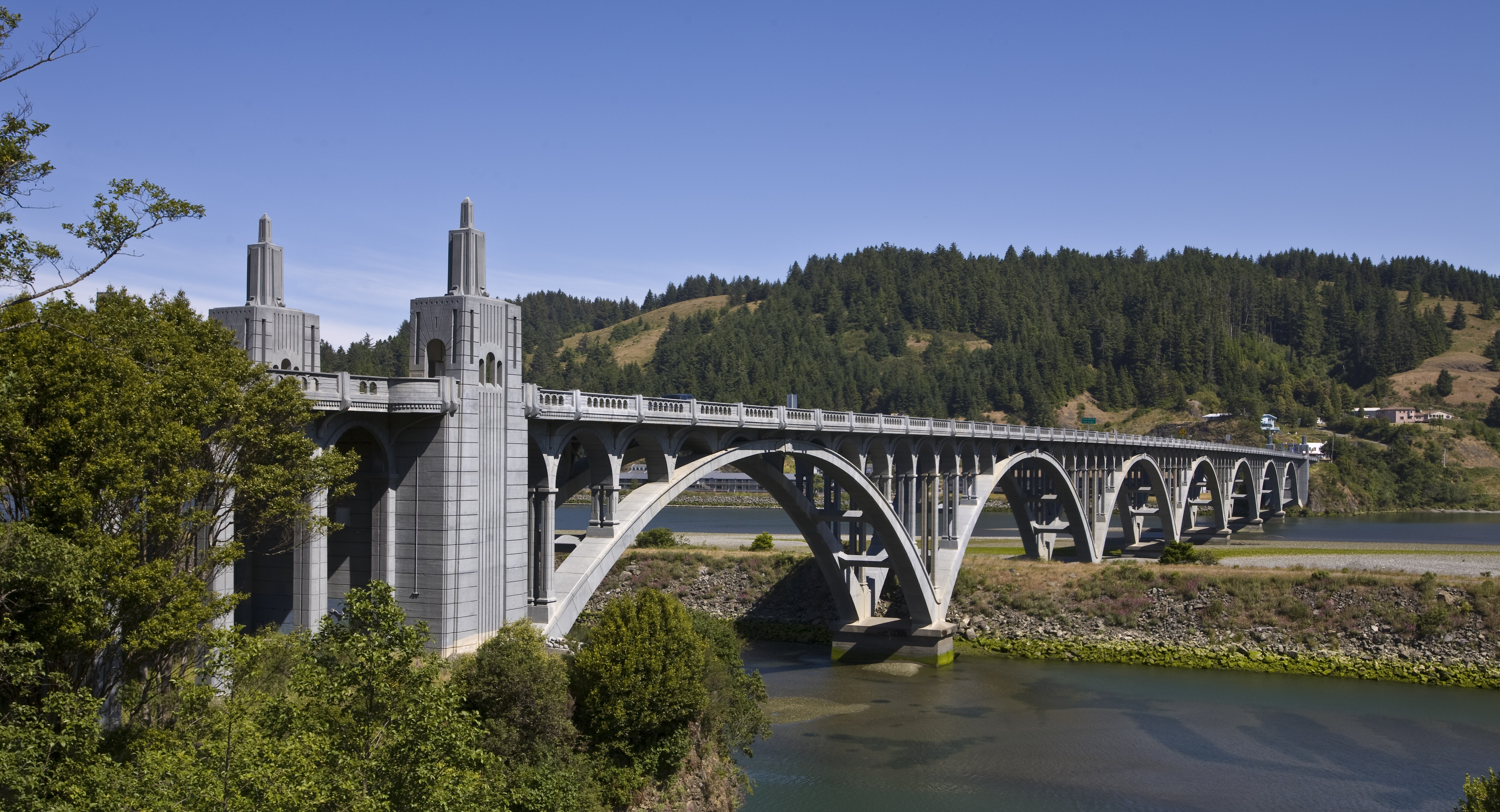 The Isaac Lee Patterson Bridge viewed from the southeast.